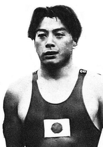 Masanori Yusa